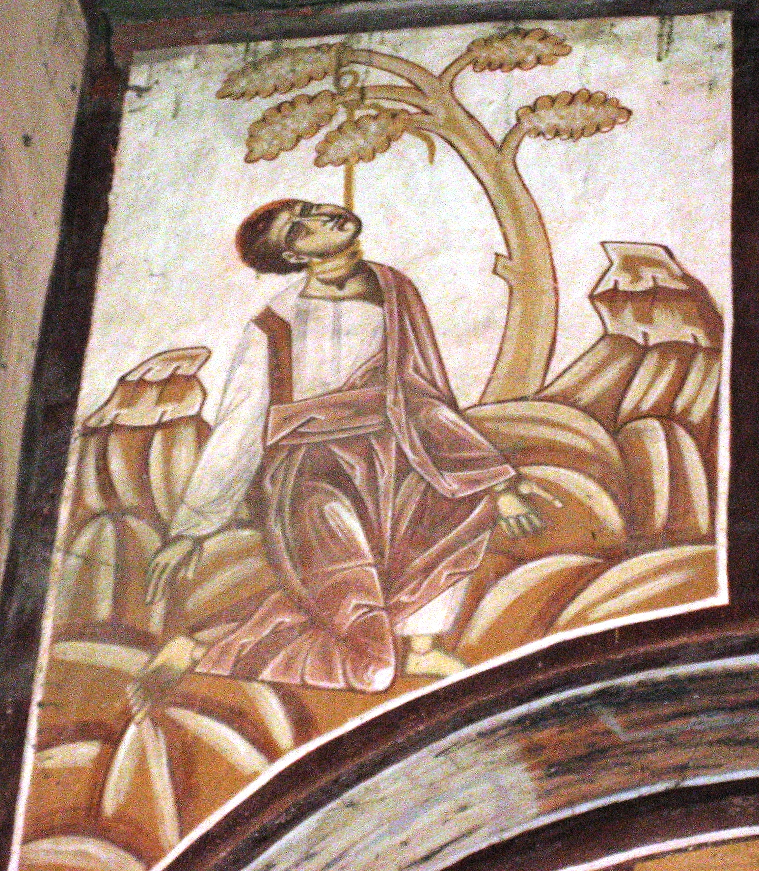 Judas hangs himself. A fresco from the Gelati monastery, Georgia